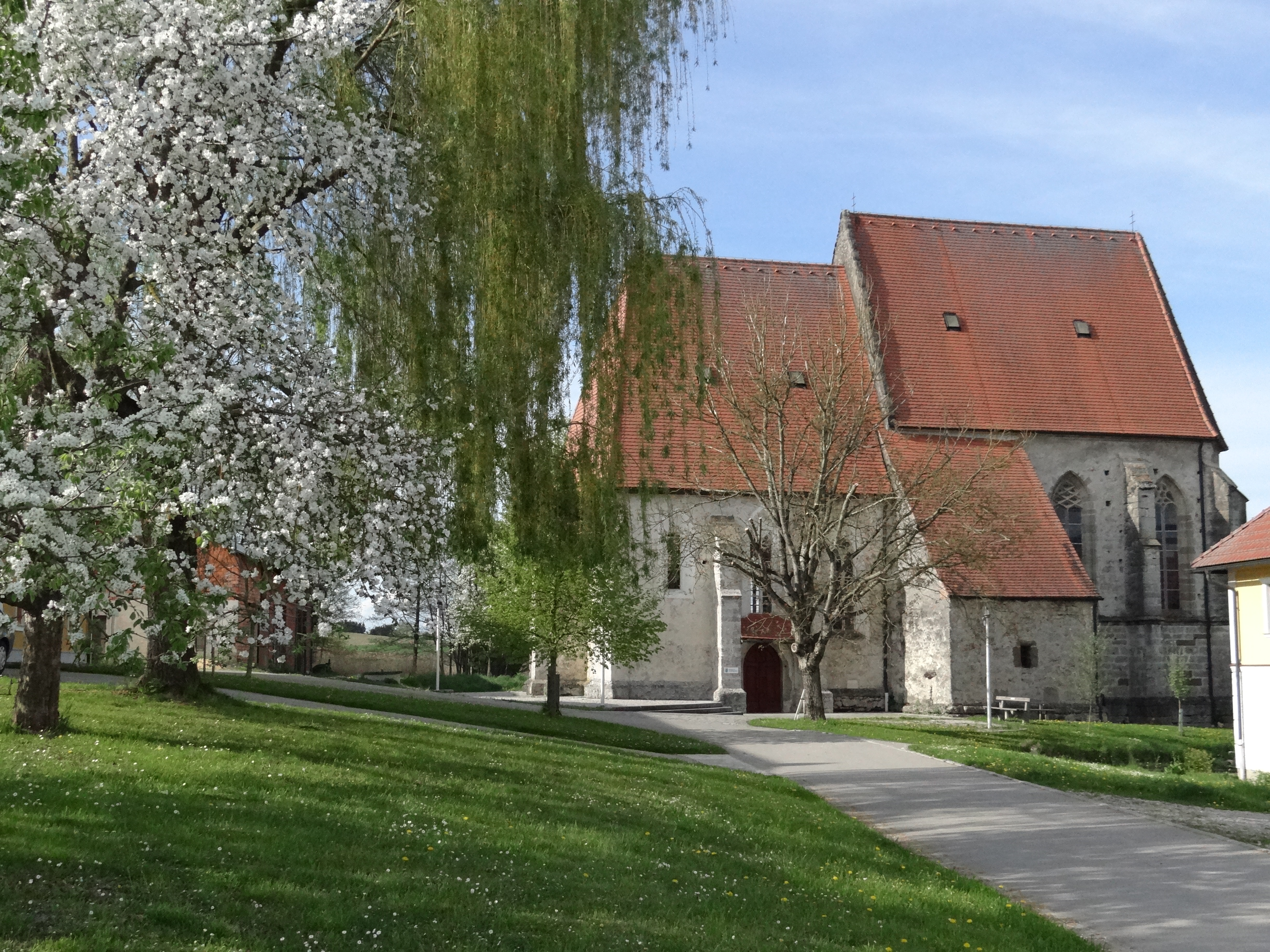 Church Kanning Austria in Spring 2015